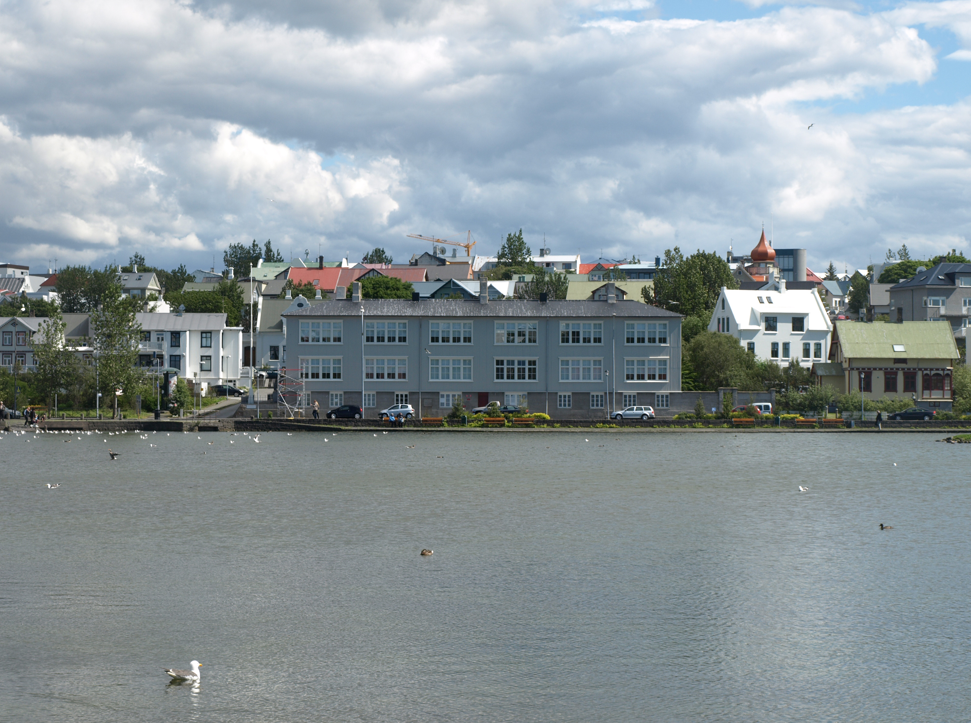 The downtown school house in central Reykjavík, Iceland. Built in 1898, it is one of the oldest standing buildings in Iceland. Through the years it has served as one of the main voting stations in the city as well.